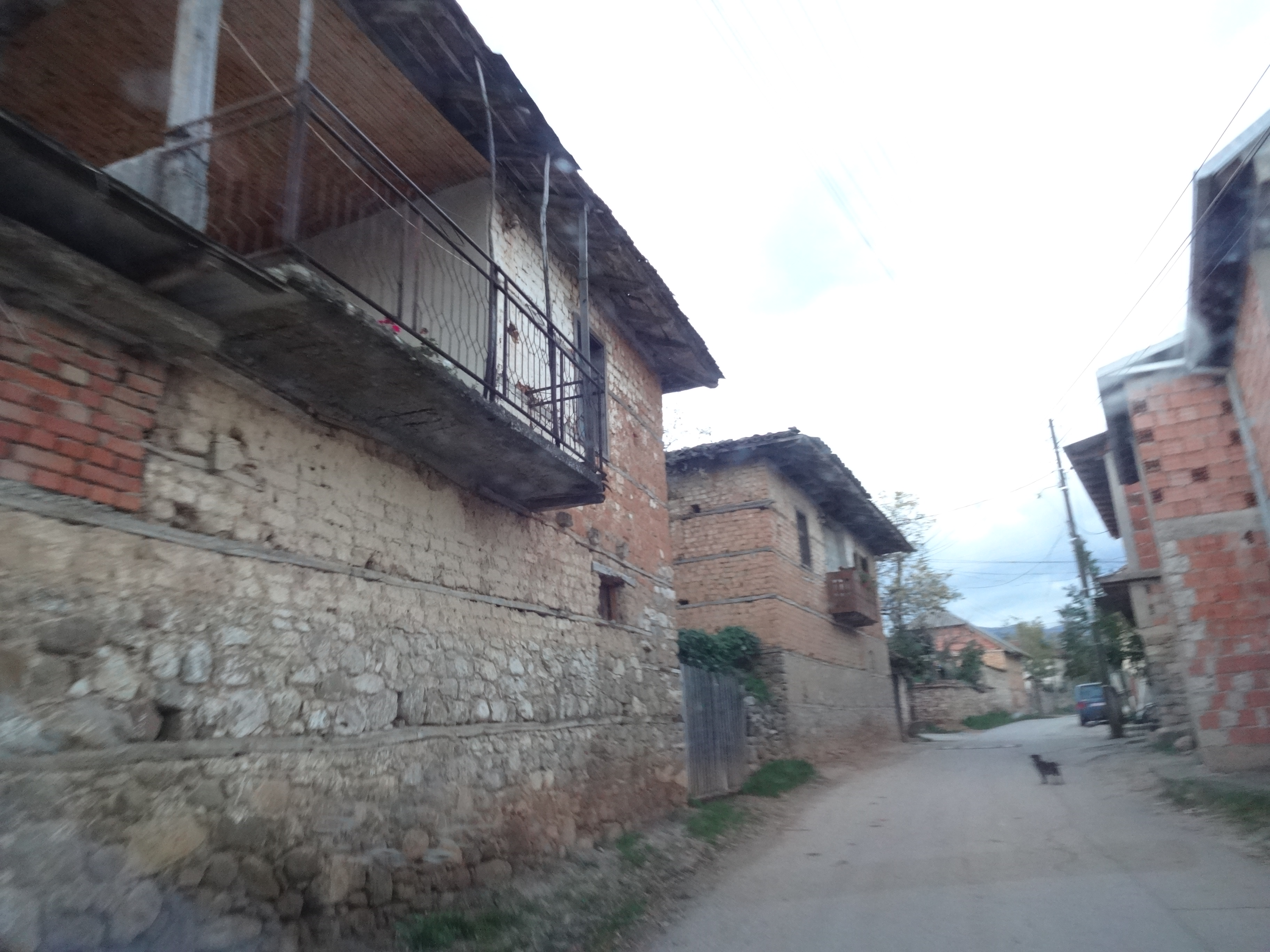 Village Mirkovci near Skopje, Macedonia